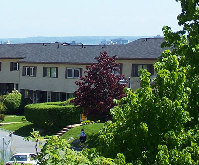 Cowie Hill, Nova Scotia, Canada